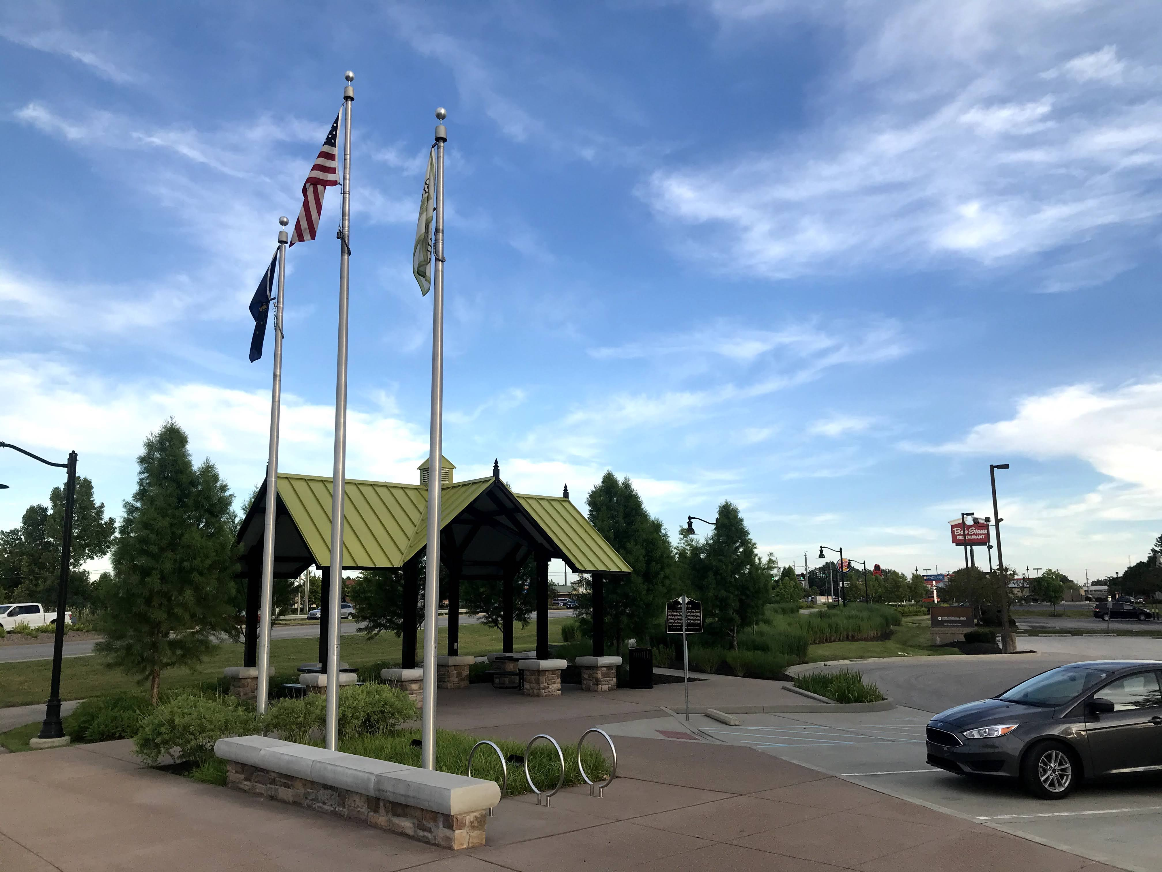 N Green Street shelter house